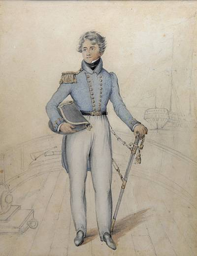 Portrait in pastel and pencil of Lieutenant Cheesman Henry Binstead RN.. The portrait shows him standing on deck with the stern of HMS Challenger in the background. Artist unknown.